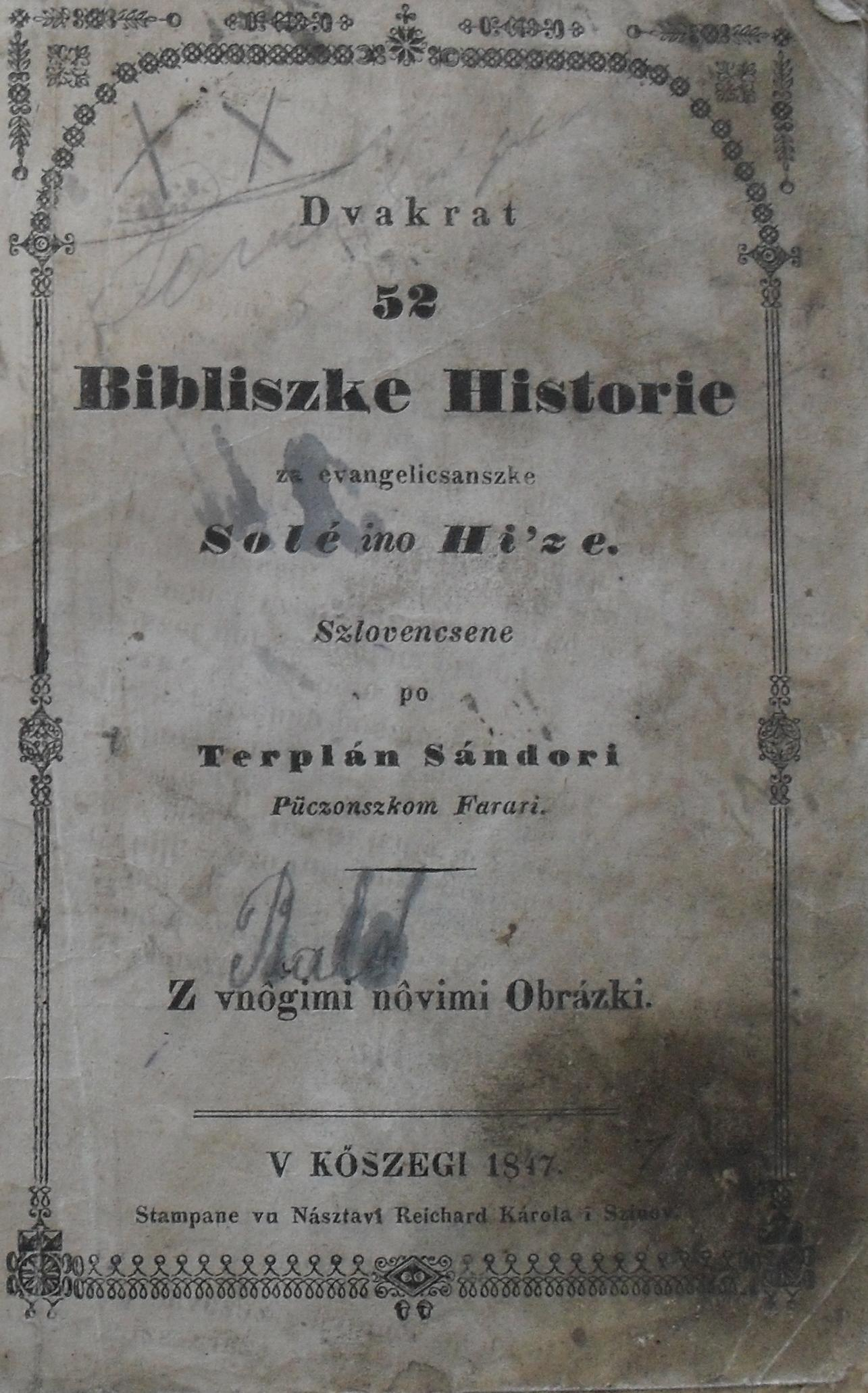 Dvakrat 52 Bibliszke Historie (Twice 52 History from Bible), prekmurian (prekmurščina) evangelic Bible-translation and school-book, by Sándor Terplán (1847)